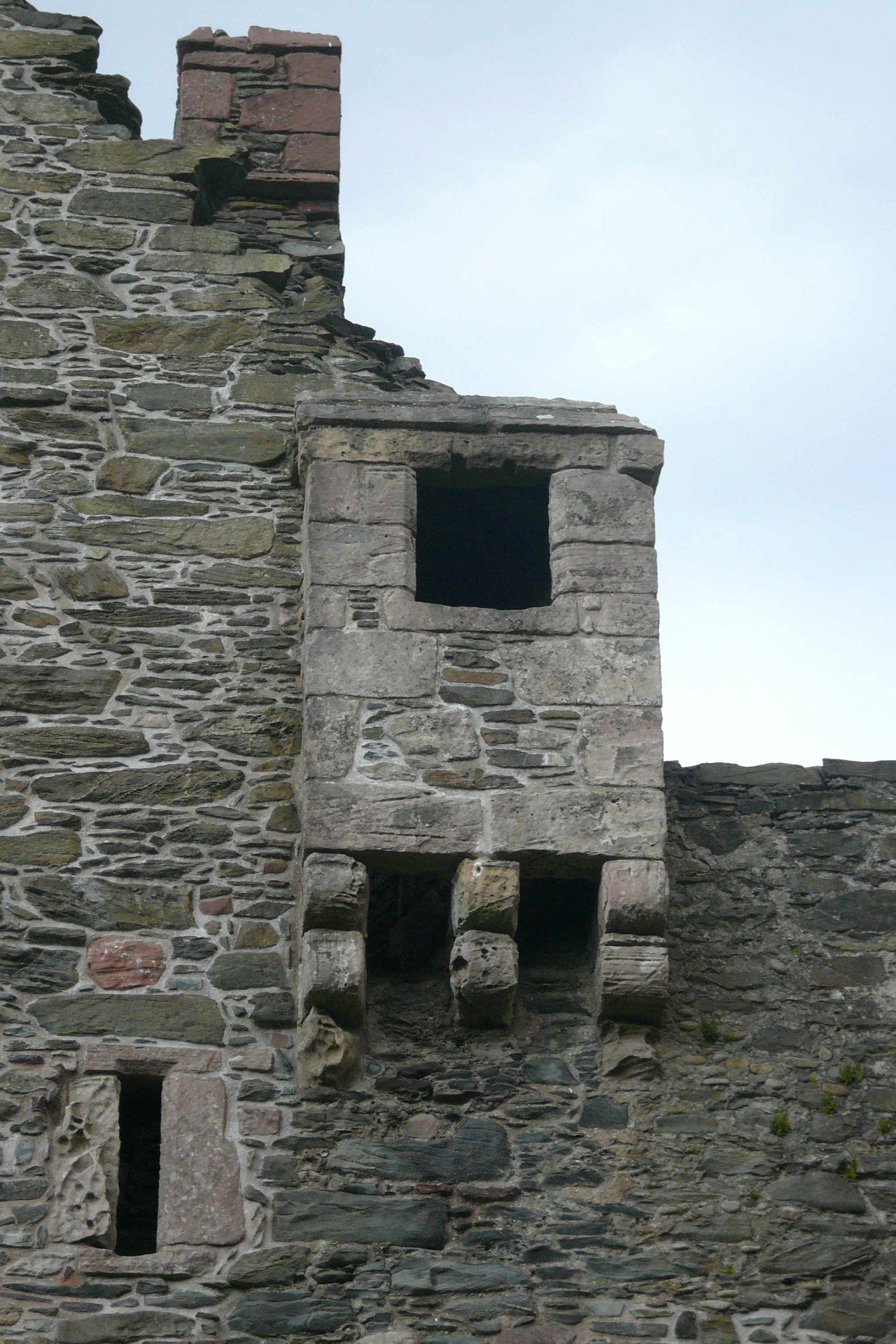 Lochranza Castle, Isle of Arran, bretèche